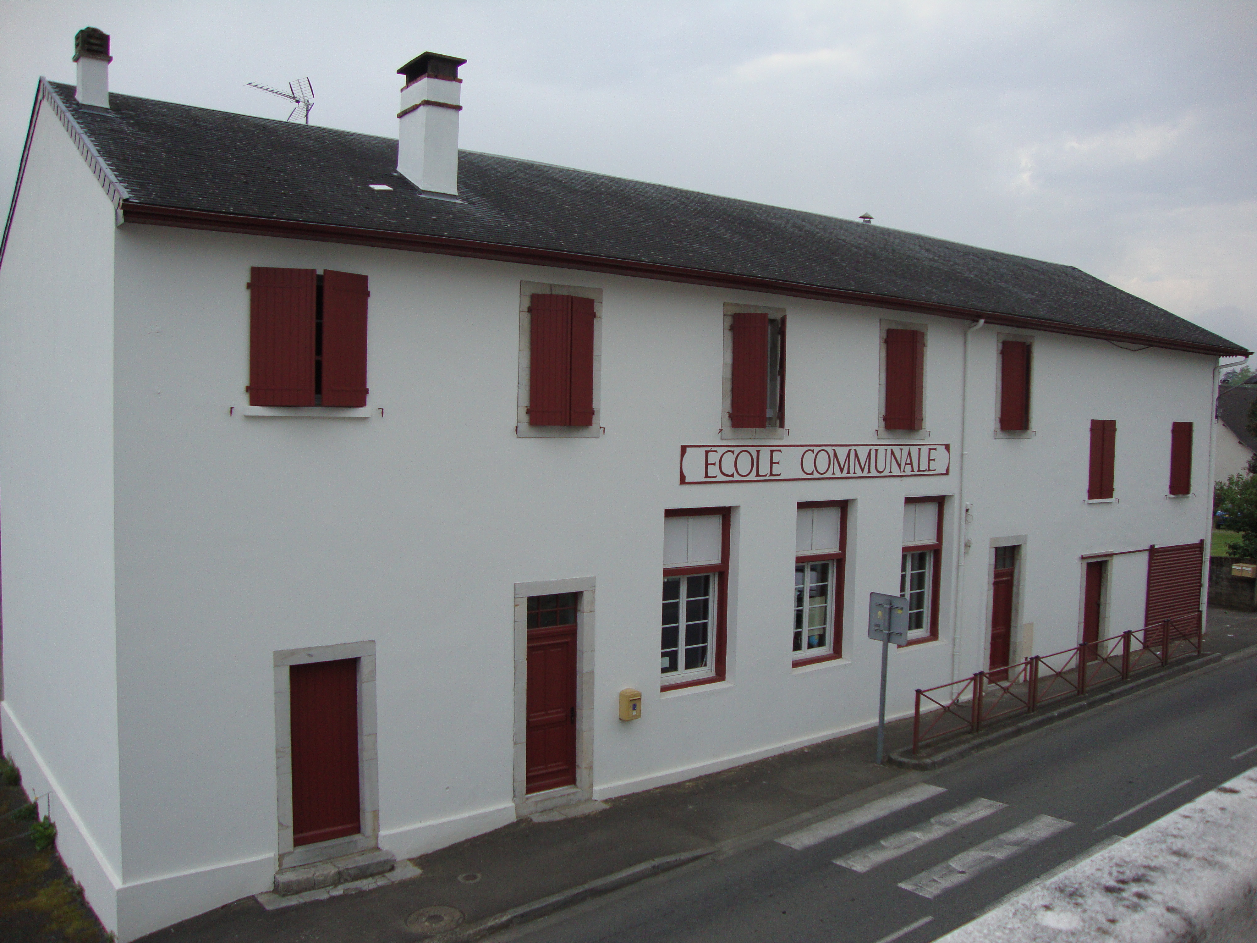 Garindein (Pyr-Atl, Fr) public elementary school